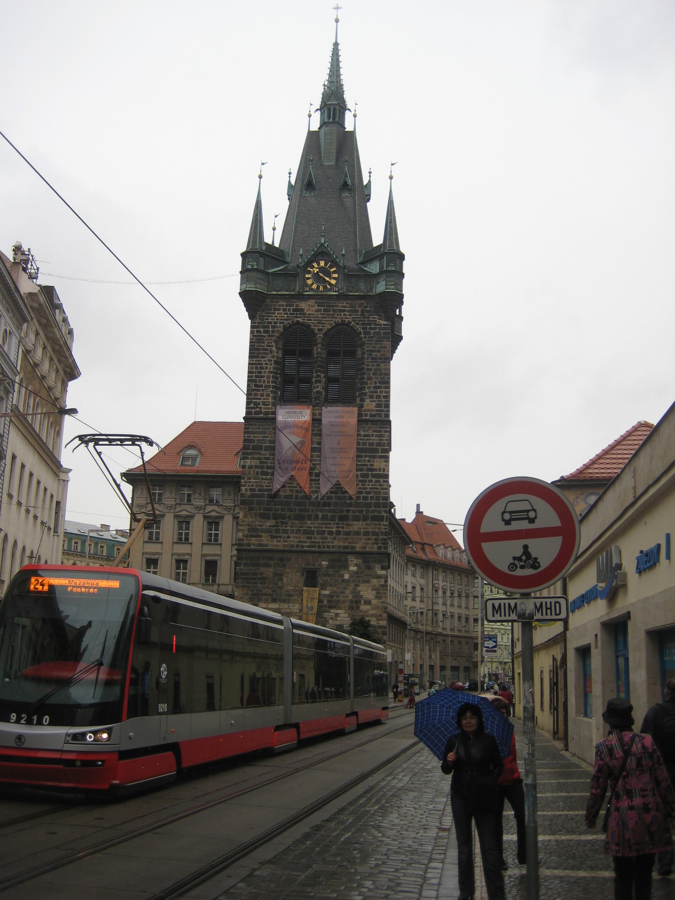 Prague. Kampanella Sacred Indrzhikh (15 century) and new tram Škoda 15T (21 century)